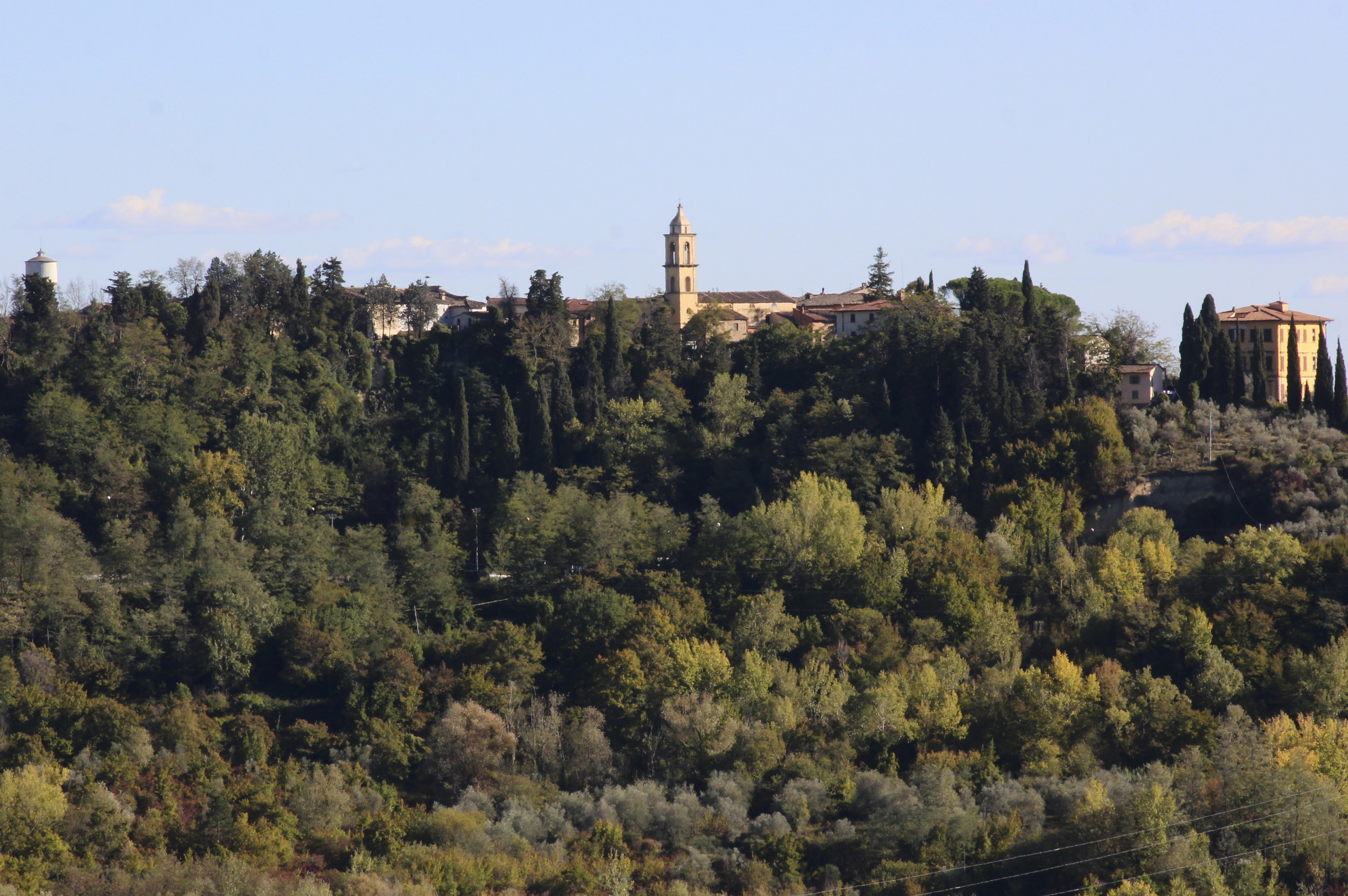 Palazzuolo, hamlet of Tavarnelle Val di Pesa, Metropolitan City of Florence, Tuscany, Italy